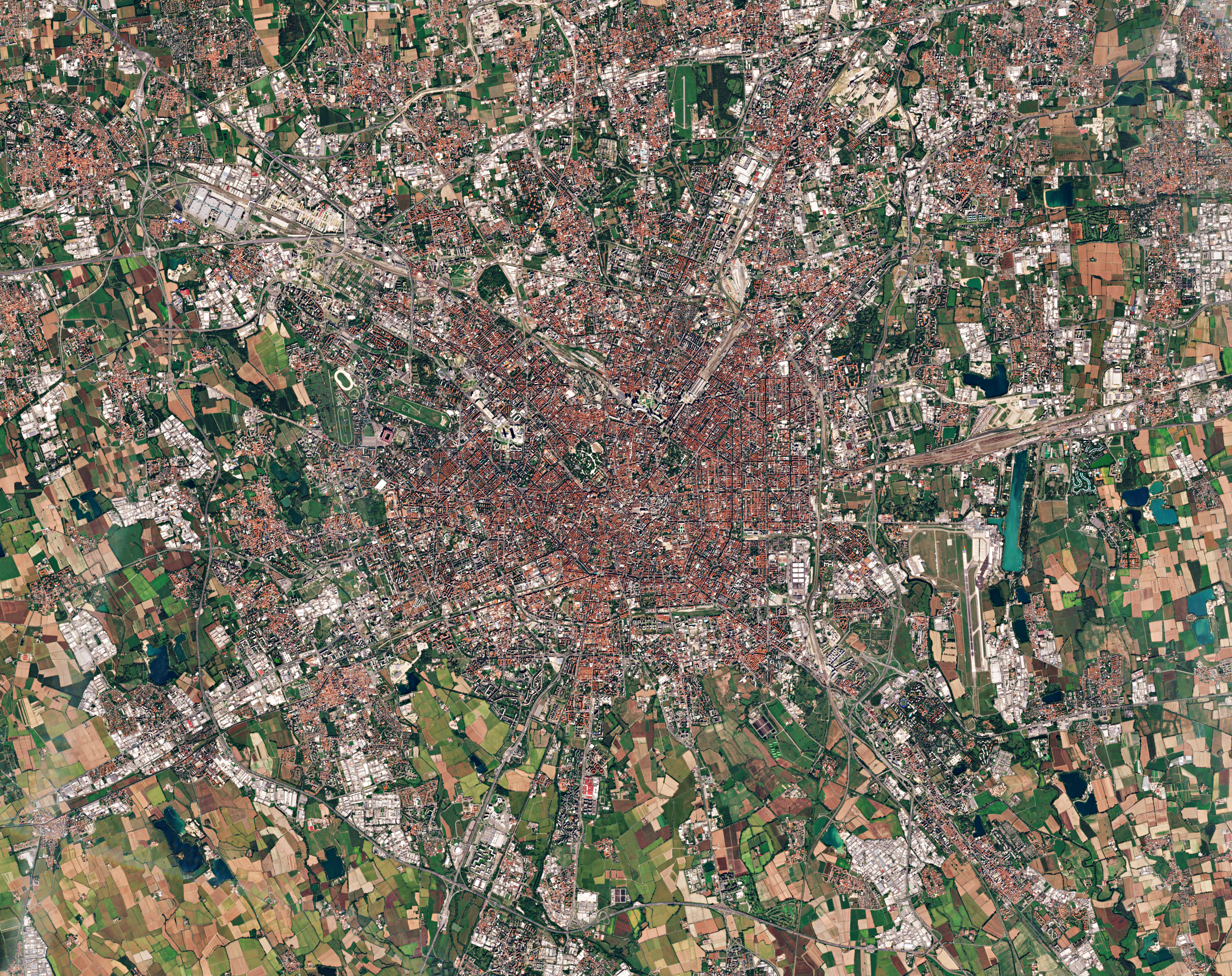 In this high-resolution image, captured by Copernicus Sentinel-2 orbiting around 800 km above, the centre of Milan is clearly visible. The famous Milan Cathedral or Duomo di Milano with its surrounding square can be seen in the centre of the image. Taking six centuries to complete, it is one of the largest gothic cathedrals in the world.